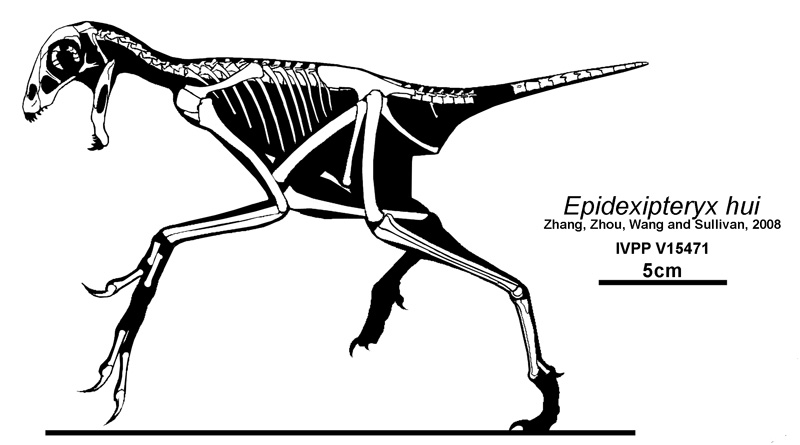 Skeletal reconstruction of Epidexipteryx hui.